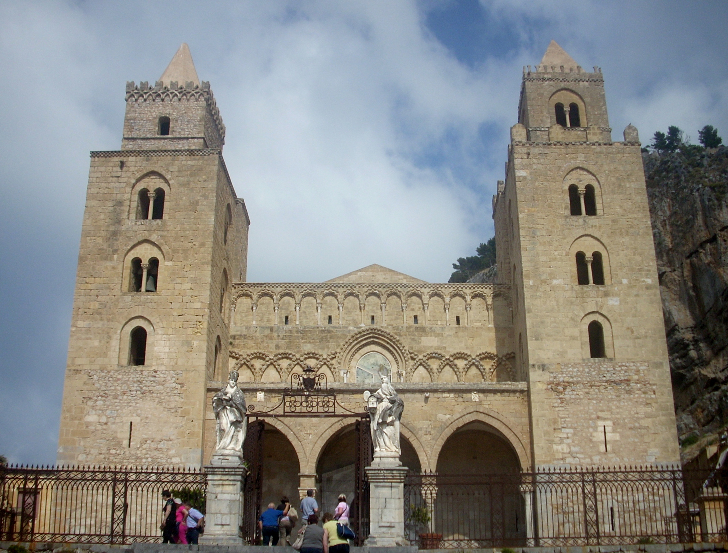 Cefalù Cathedral, Sicily